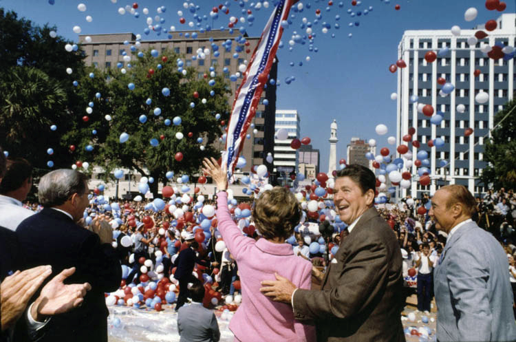 Ronald Reagan campaigning with Nancy Reagan in Columbia, South Carolina. 10/10/80.